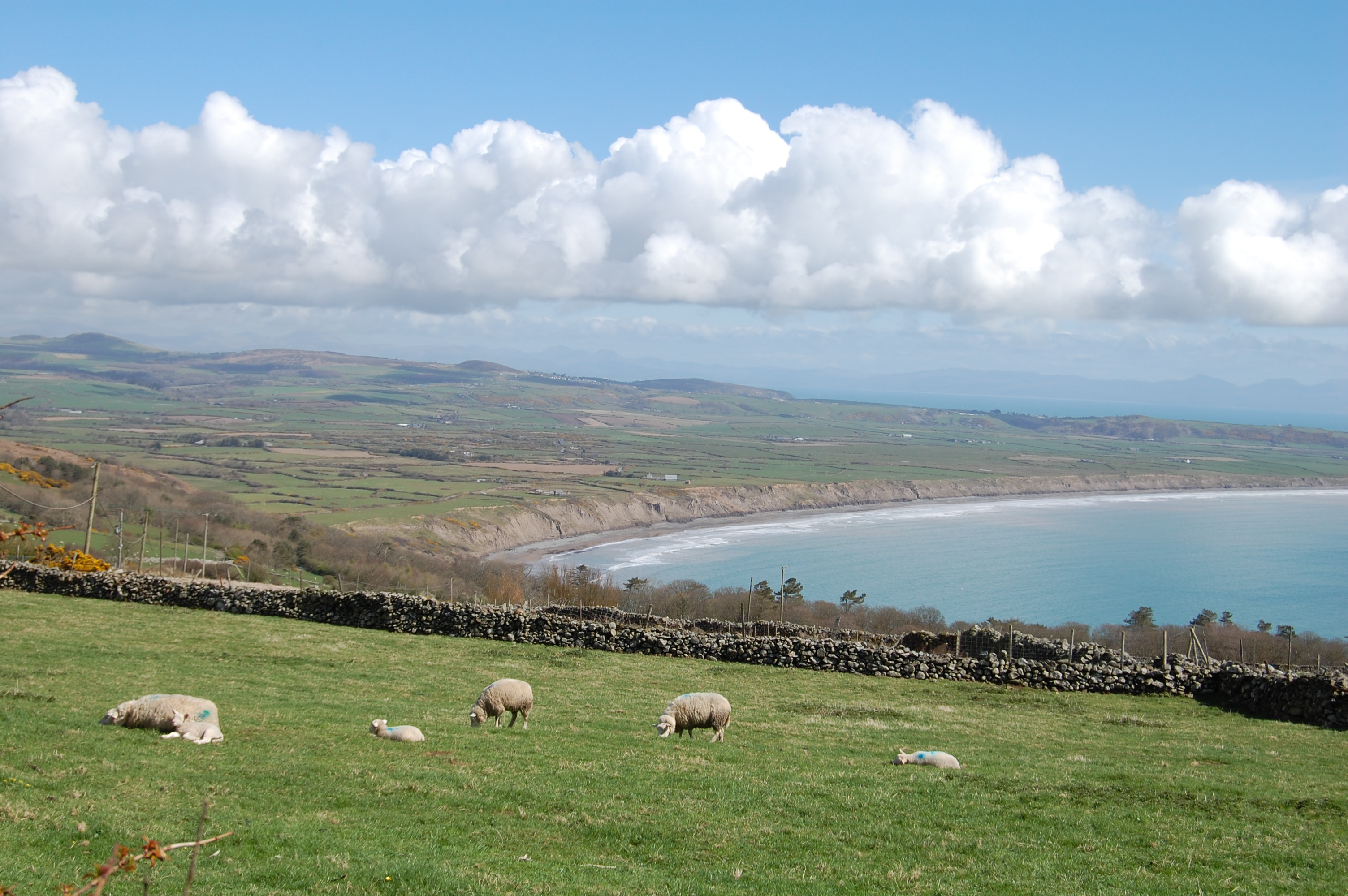 Porth Neigwl, Gwynedd seen from Rhiw in Aberdaron